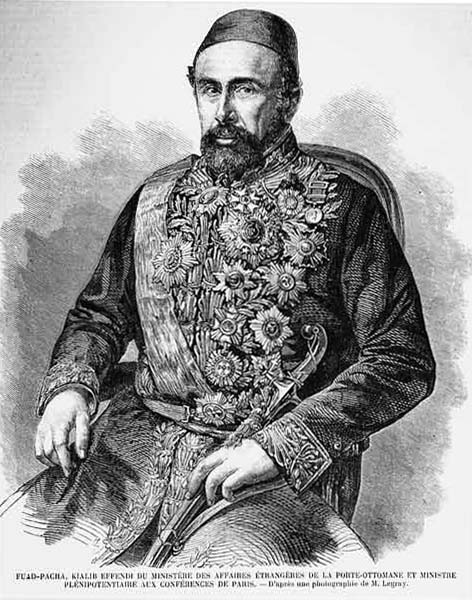 Fuad Pasha (1814 - 1868), Ottoman Foreign Minister and Grand Vizier